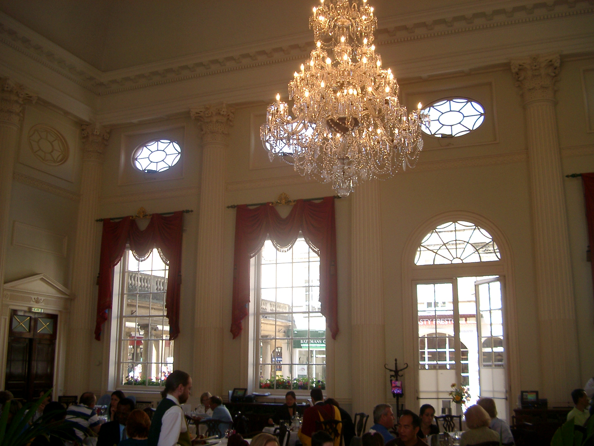 restaurant at Roman baths in Bath